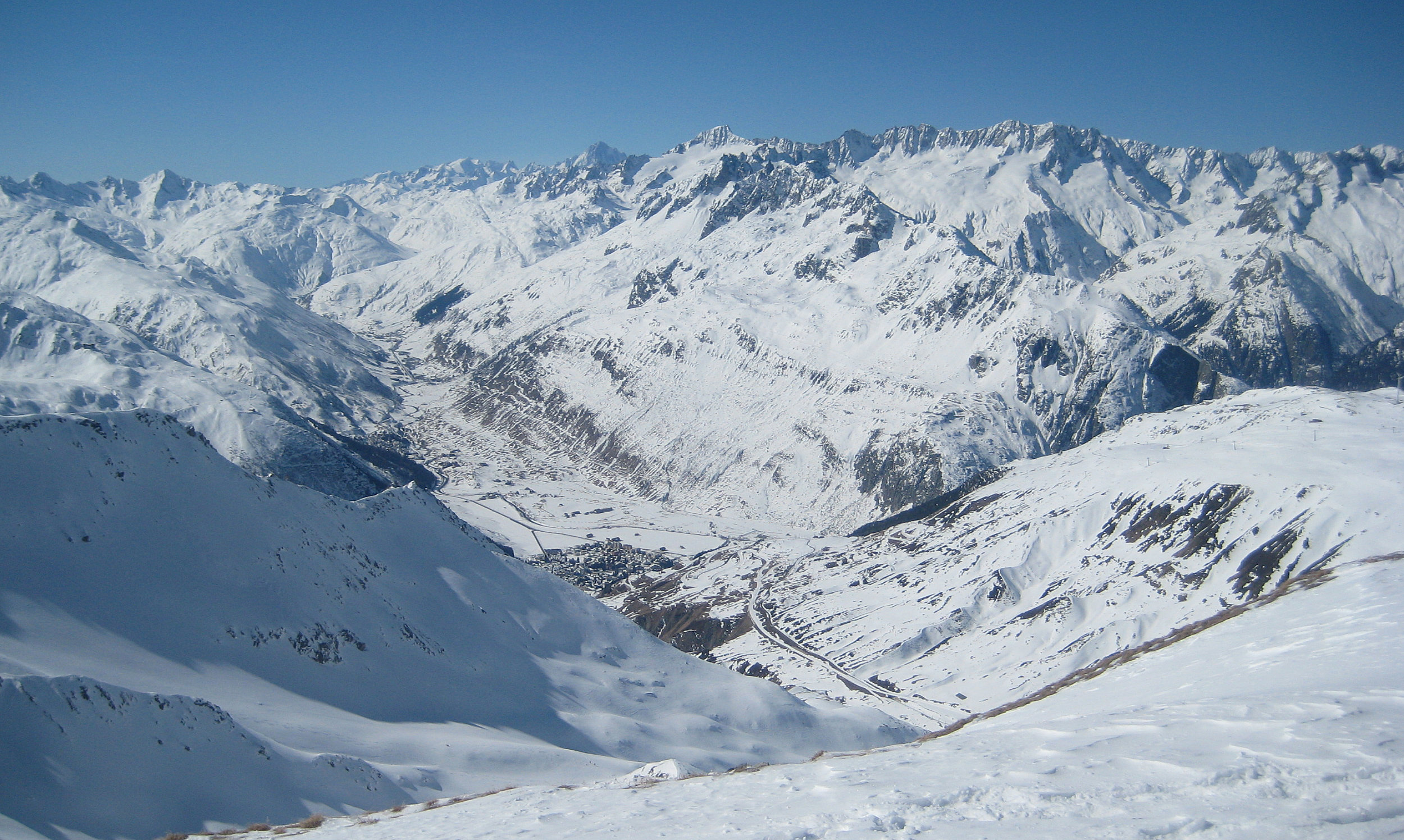 Andermatt seen from Pazolastock (2740 m)